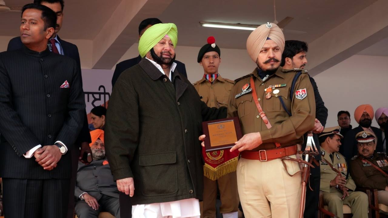 Chief Minister of Punjab Captain Amrinder singh 26 january 2020